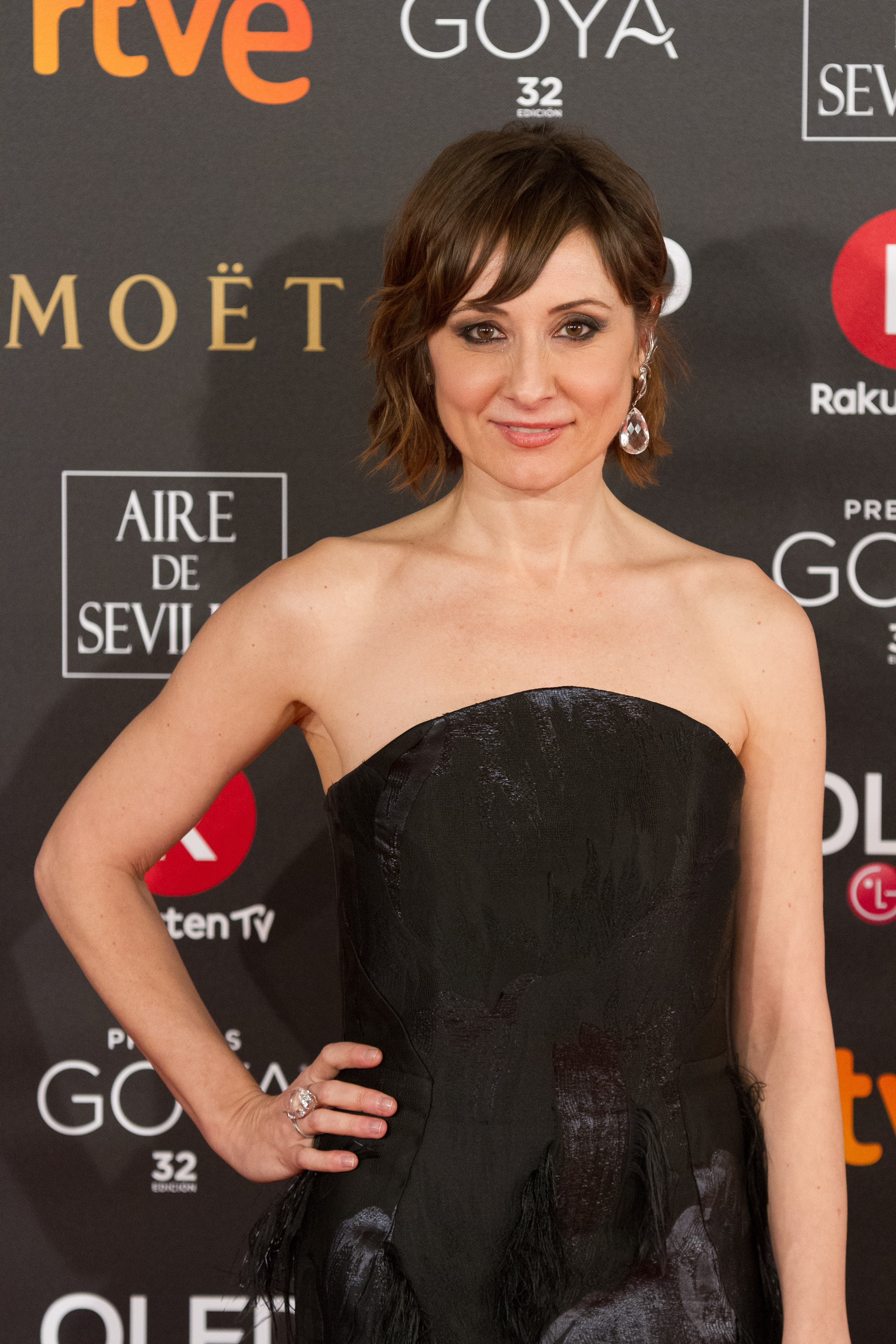 32nd Goya Awards, 2018.